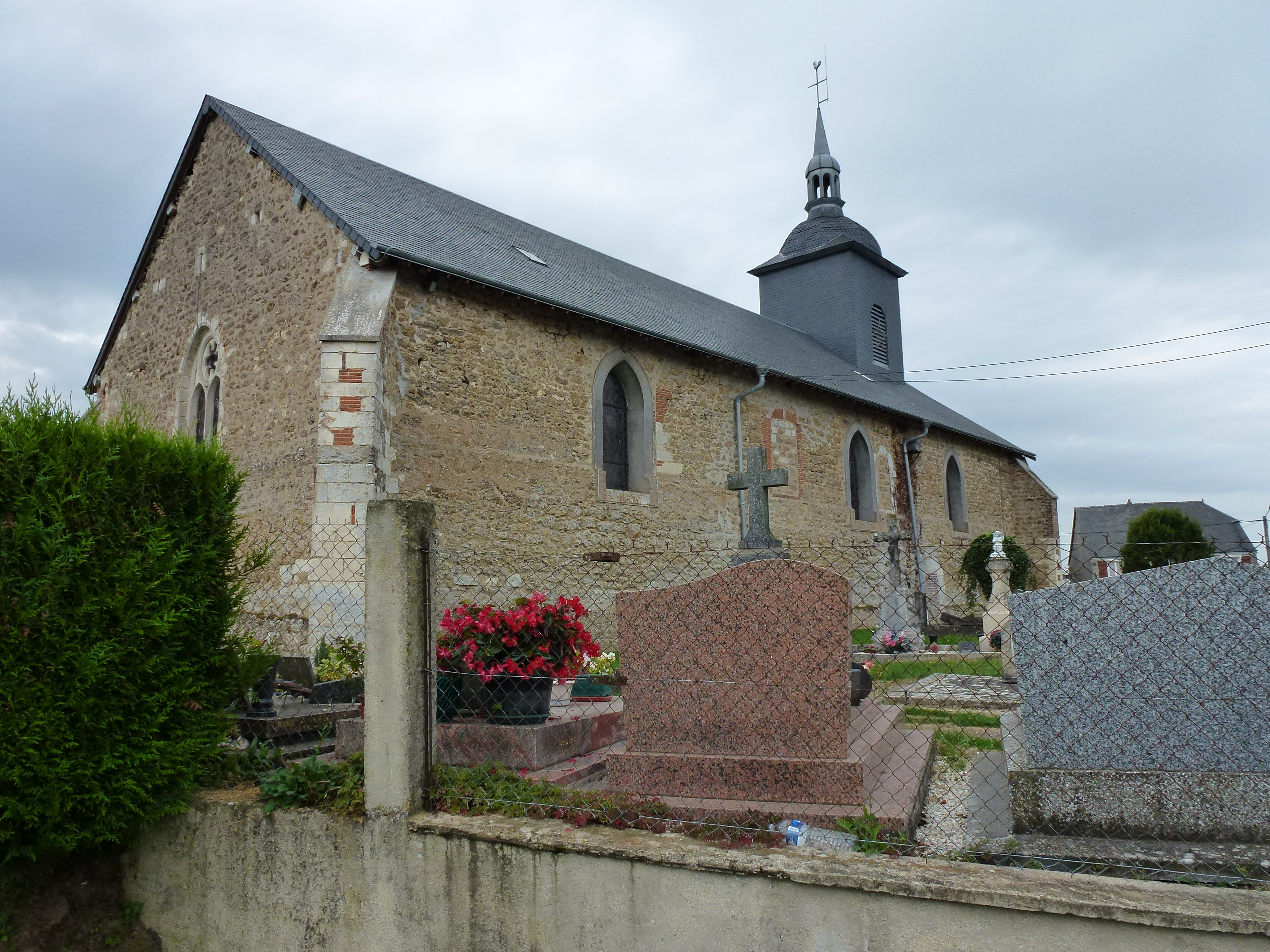 La Romagne (Ardennes) église Église Saint-Jean